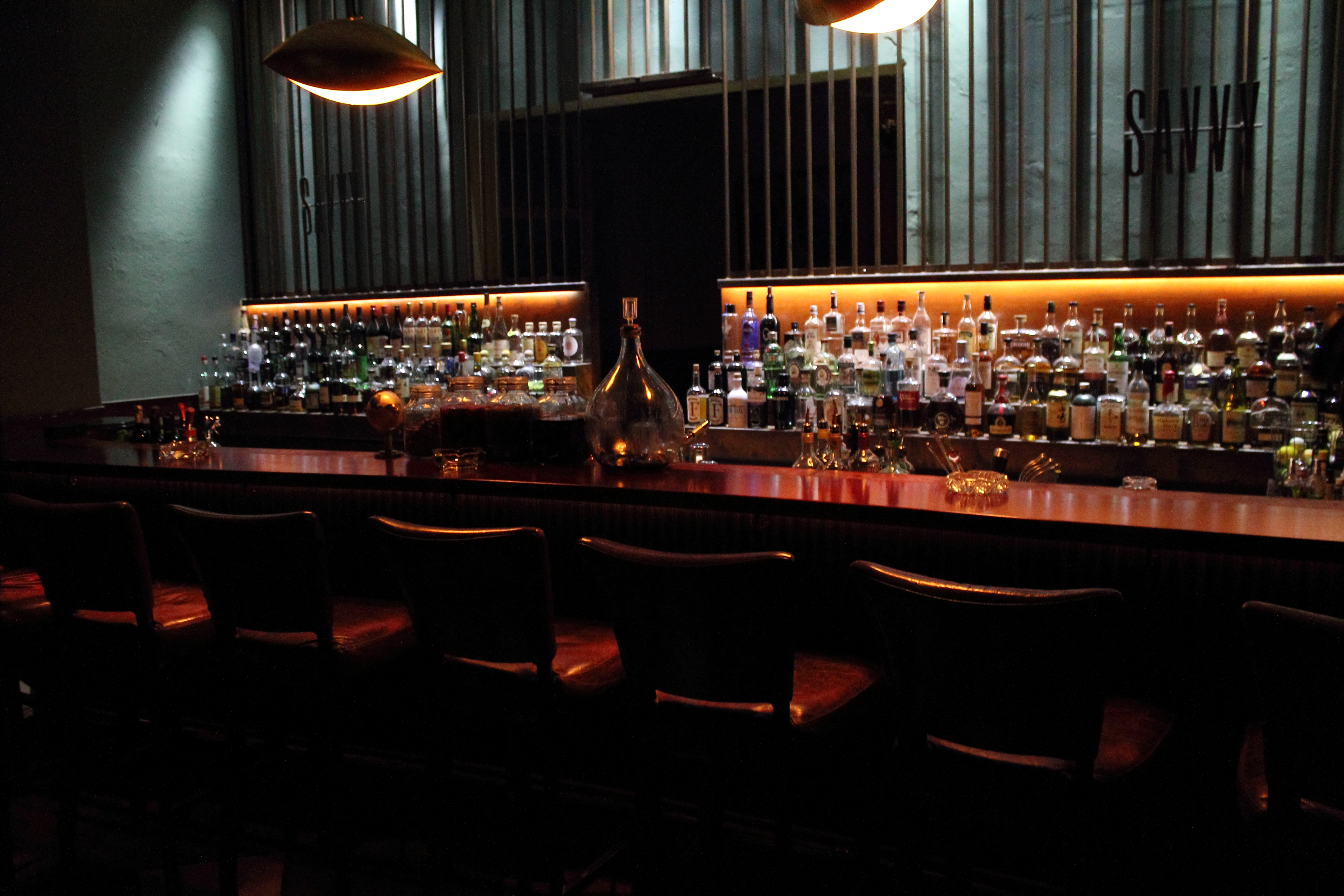 Bar of Savvy in Hamburg.